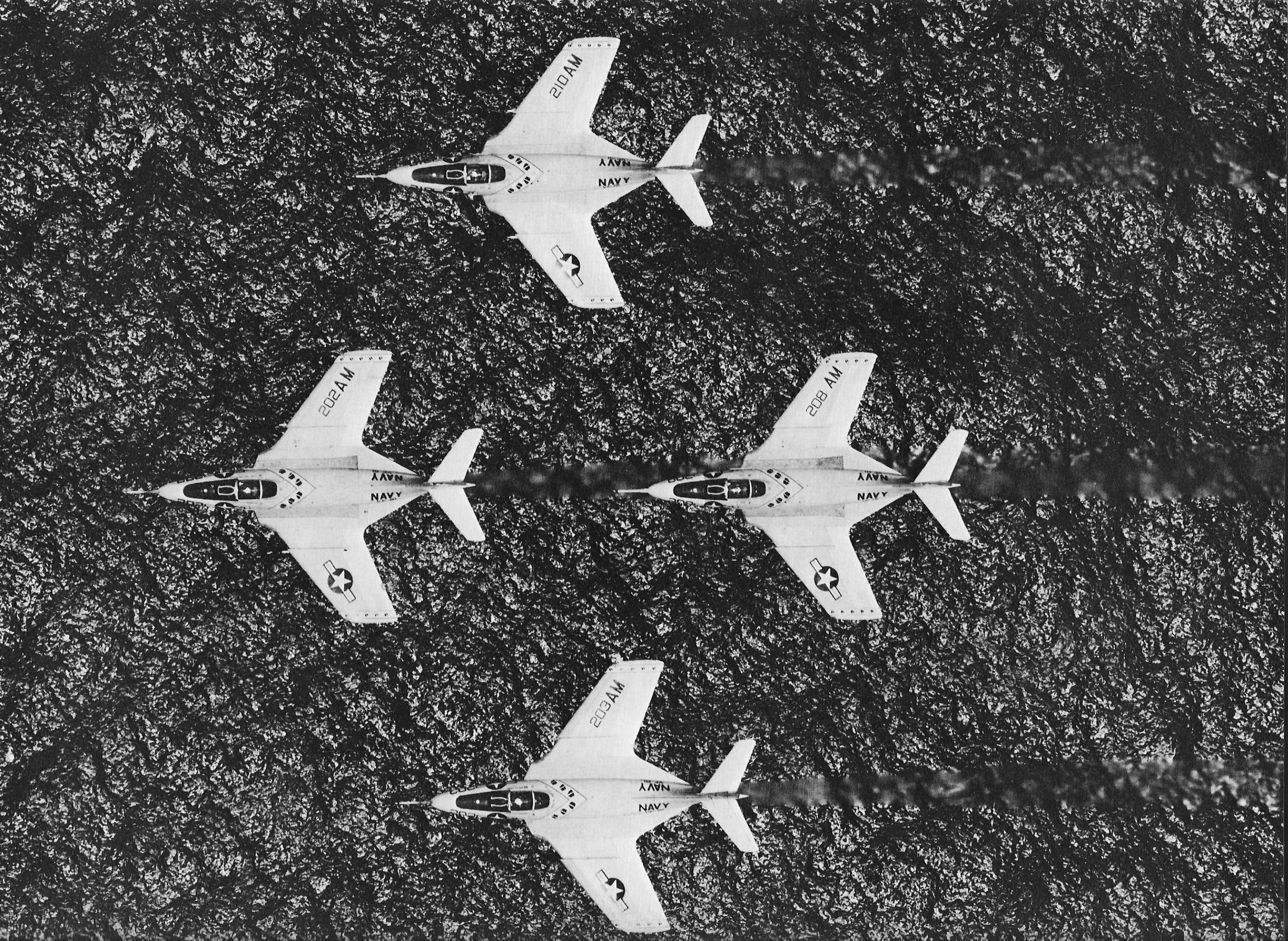 Four U.S. Navy Grumman F9F-8B Cougar fighters of Fighter Squadron VF-81 Crusaders, in August 1958. VF-81 was deployed aboard the aircraft carrier USS Intrepid (CVA-11) to the North Atlantic from June to August 1958 as part of Air Task Group 101 (ATG-101). VF-81 was then re-equipped with the Douglas A4D-2 Skyhawk and redesignated Attack Squadron VA-81 on 1 July 1959. In 1963 the squadron nickname was changed to Sunliners.